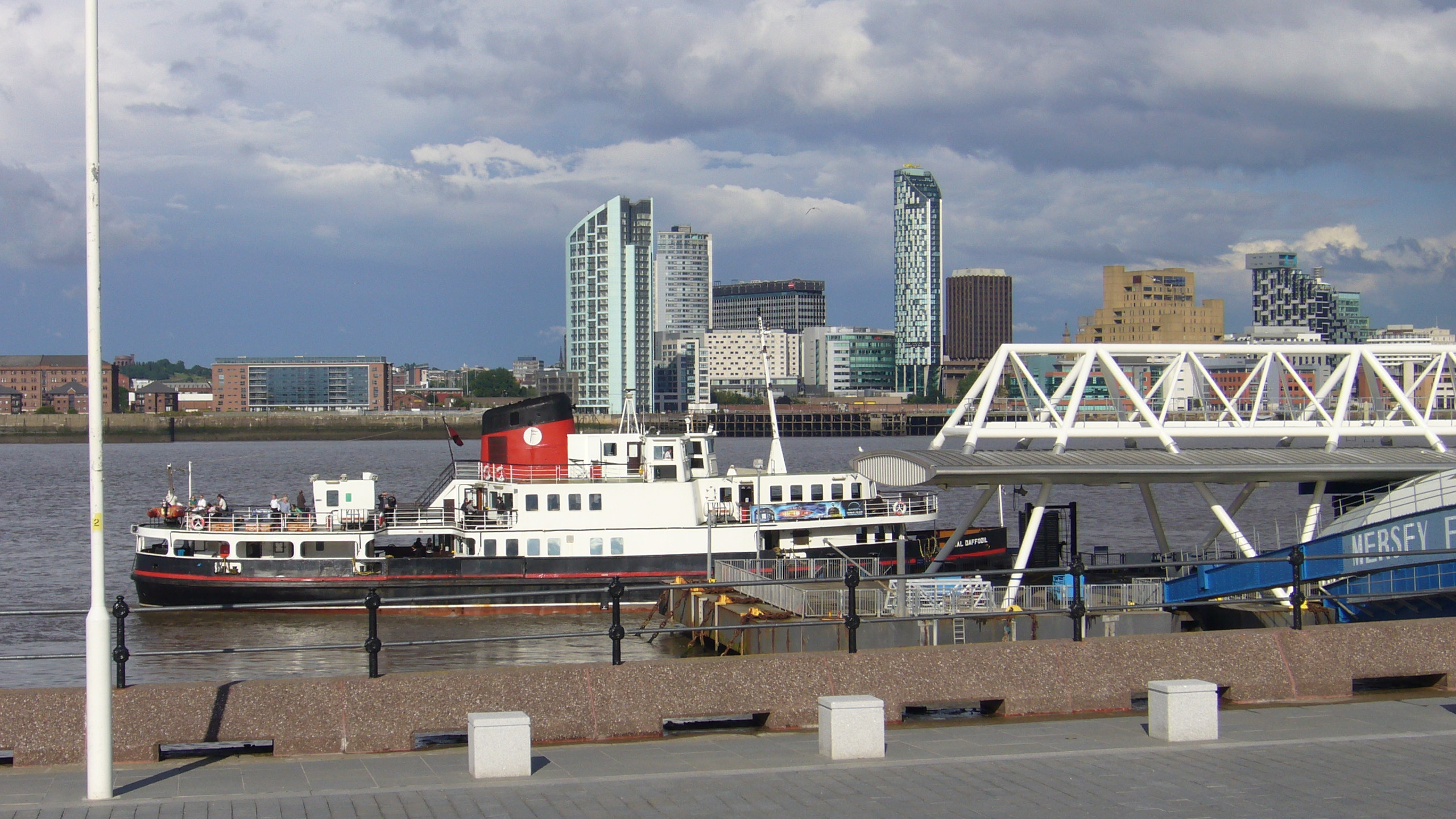 The Mersey ferry, the Royal Daffodil stopping at Seacombe Pier. Seen from grid reference SJ 325 909 in Seacombe, Wirral Peninsula.